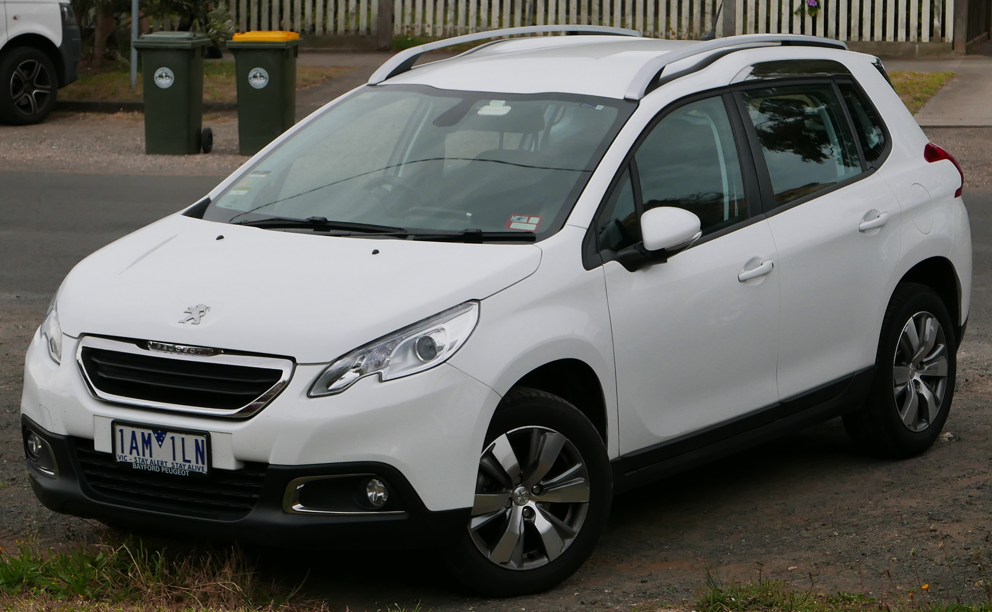 2013 Peugeot 2008 (A94) Active wagon. Photographed in Queenscliff, Victoria, Australia. Vehicle registration enquiry results Jurisdiction Victoria Registration 1AM1LN Chassis code VF3CU5FS9DY040347 Engine code 10FHCK1890718 Compliance date 2013-11 Year of manufacture 2013